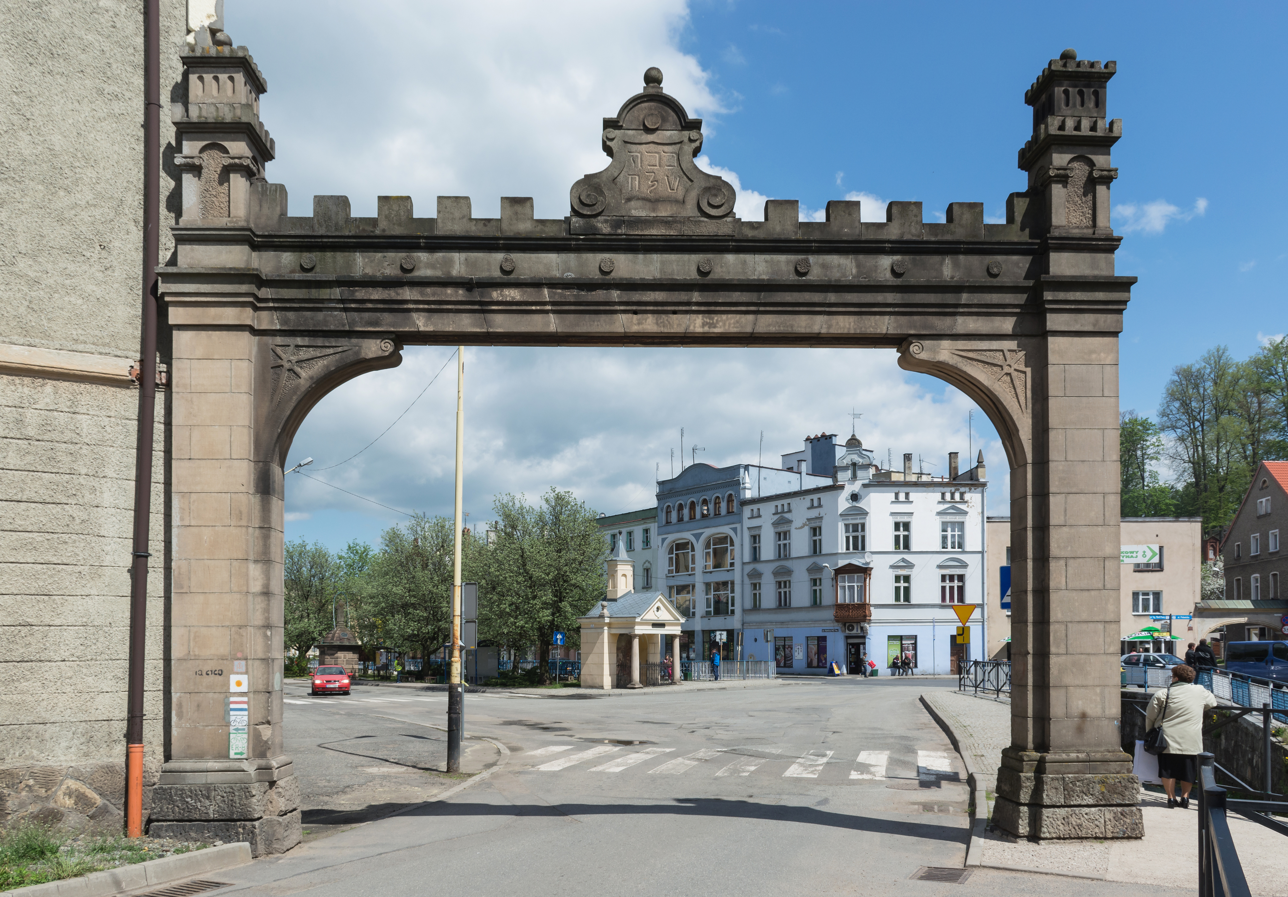 Gate of Jerusalem in Wambierzyce